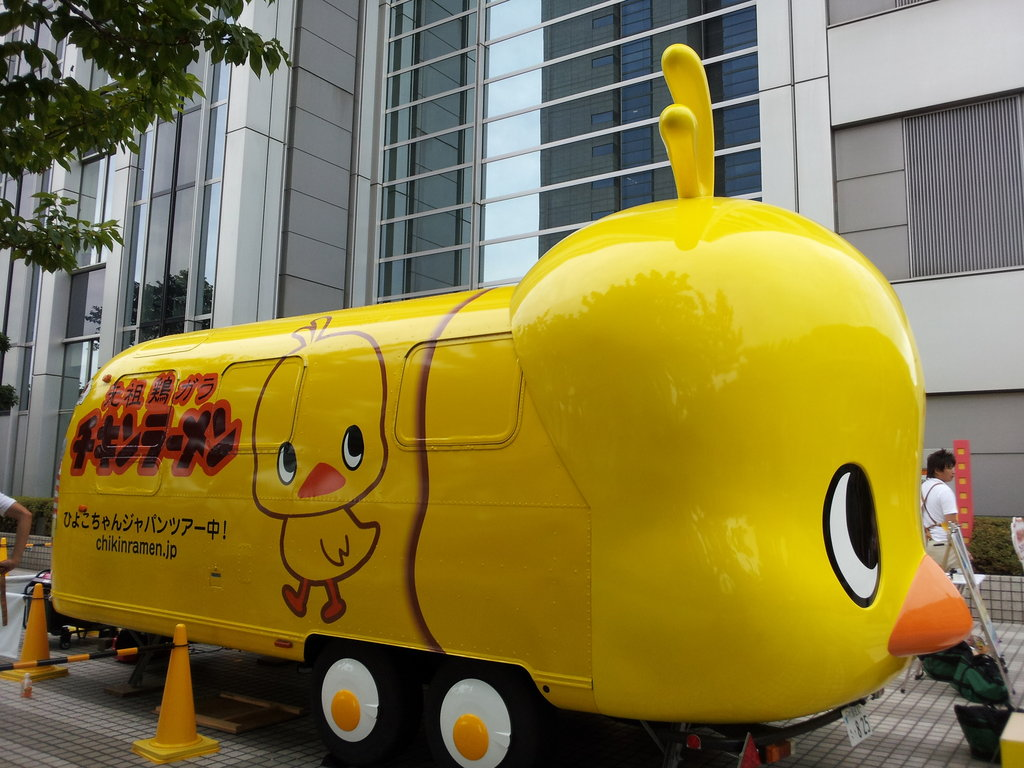 Chicken Ramen (Chikin Ramen), Campaign car (Advertising vehicles). Japan.